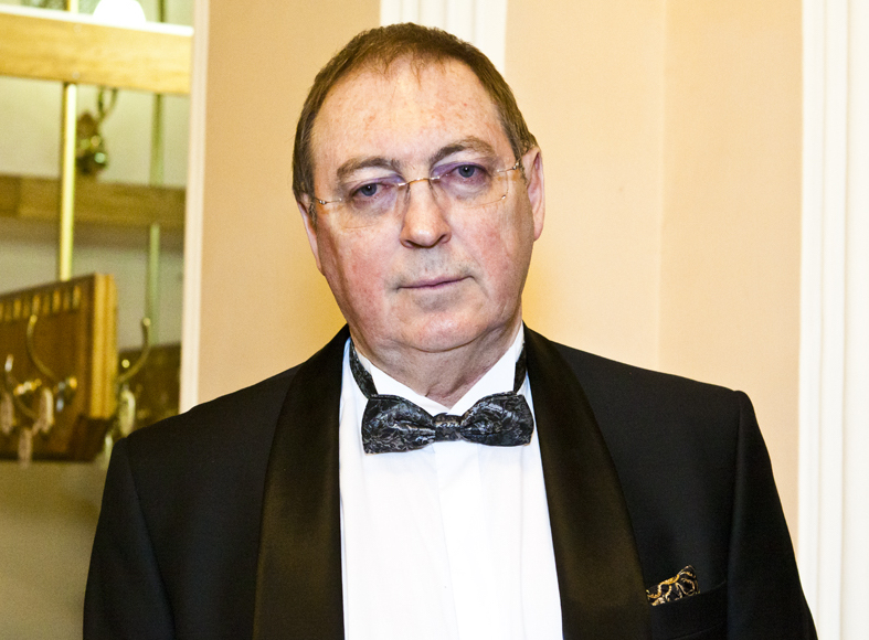 Dmitry Vydrin